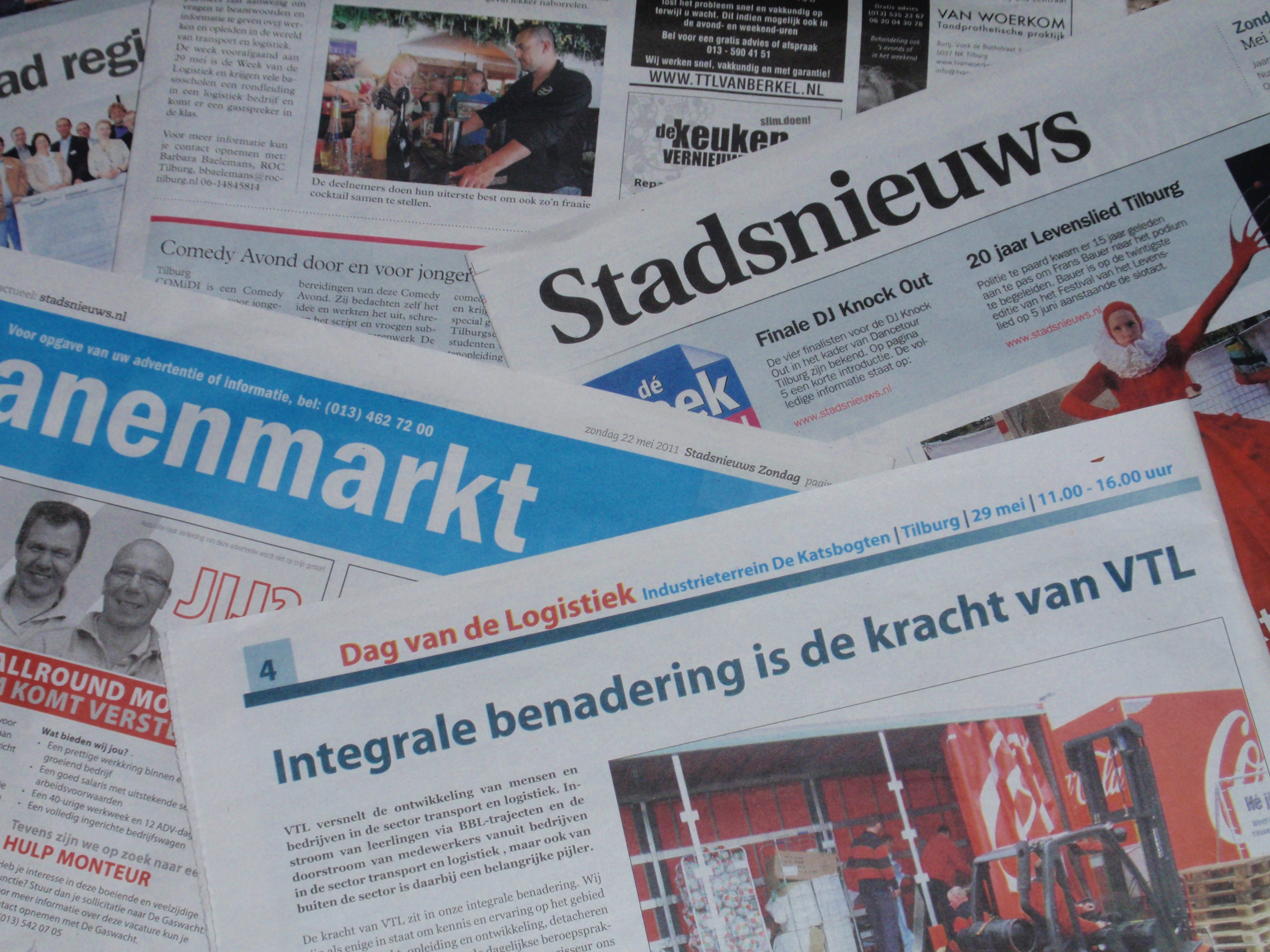 Dutch local newspaper (Tilburg)